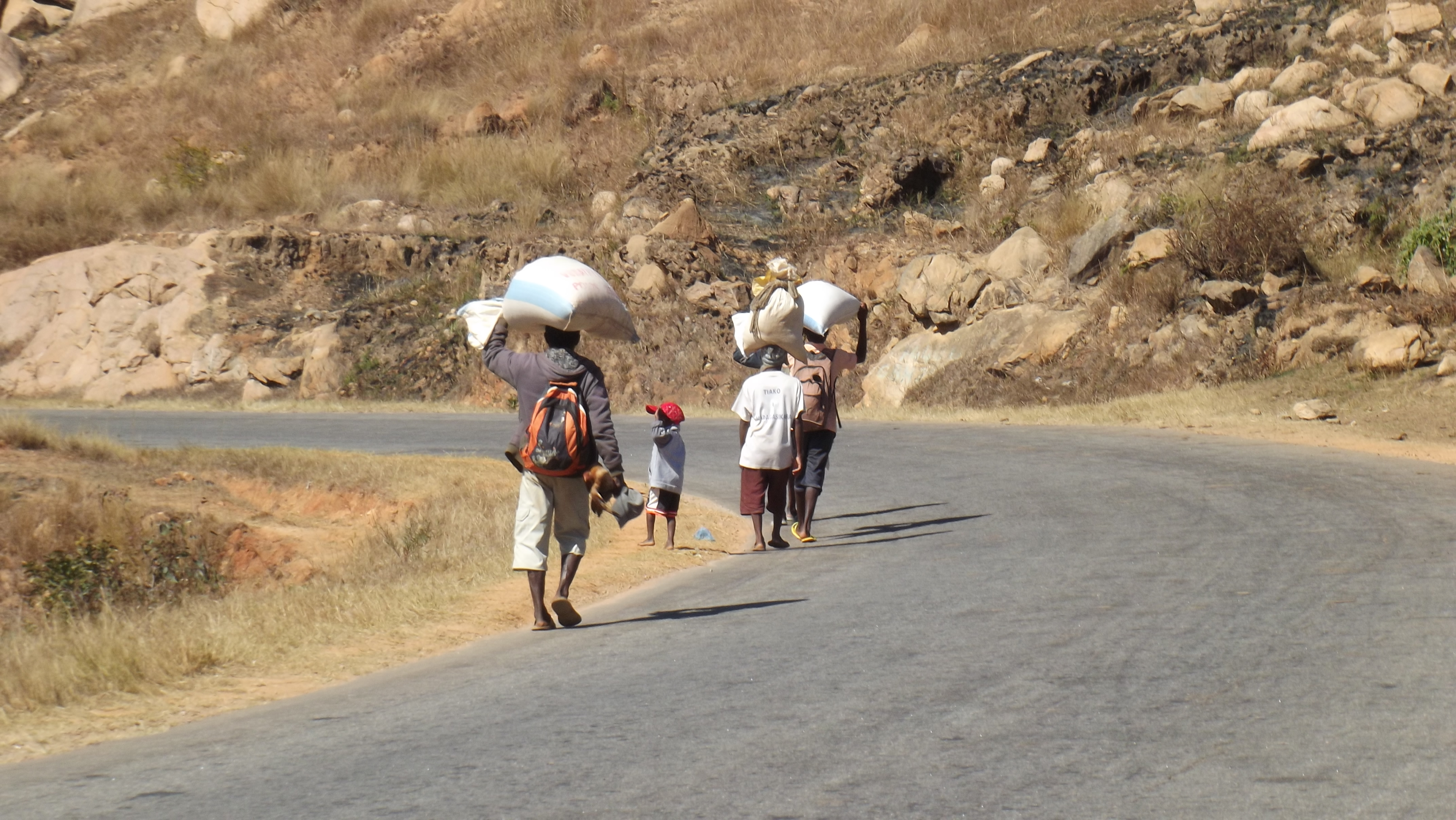 Goods transport on heads